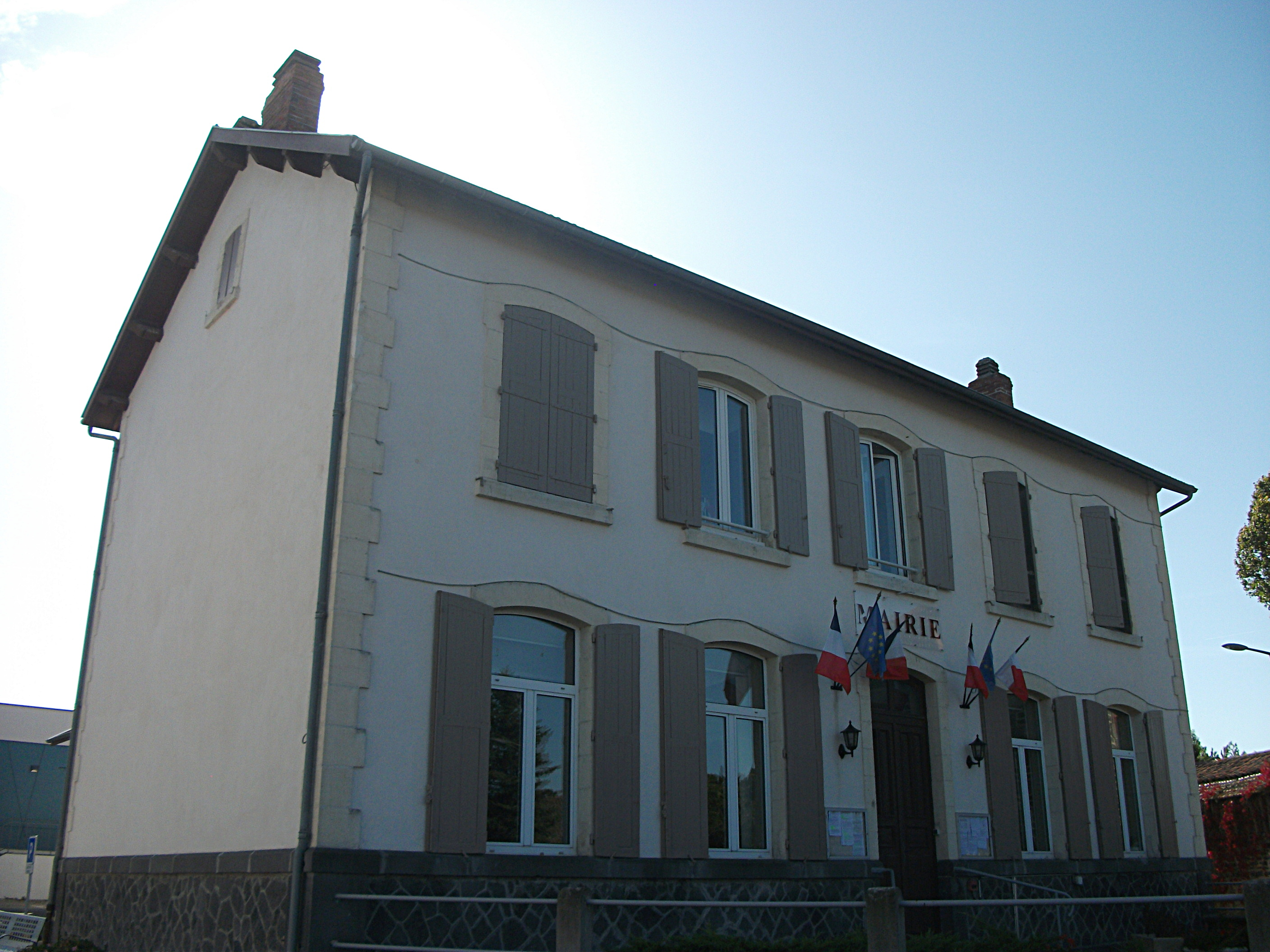 Town hall of Saint-Ignat, Puy-de-Dôme, Auvergne-Rhône-Alpes, France. [19294]